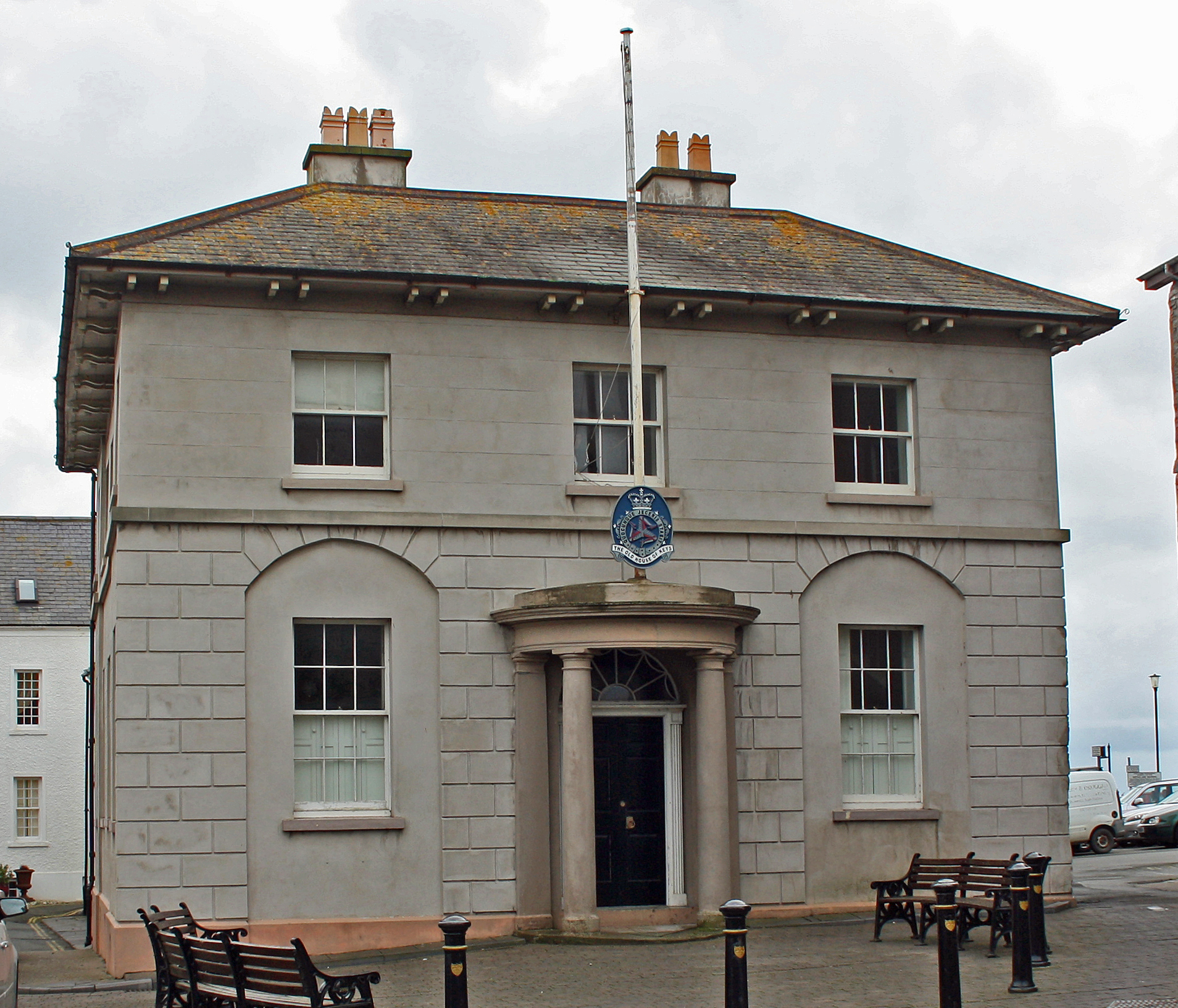 Old House of Keys, Castletown. From 1821 to 1874 this was the seat of Manx democracy. Castletown was the capital of the Isle of Man until the title moved to Douglas.